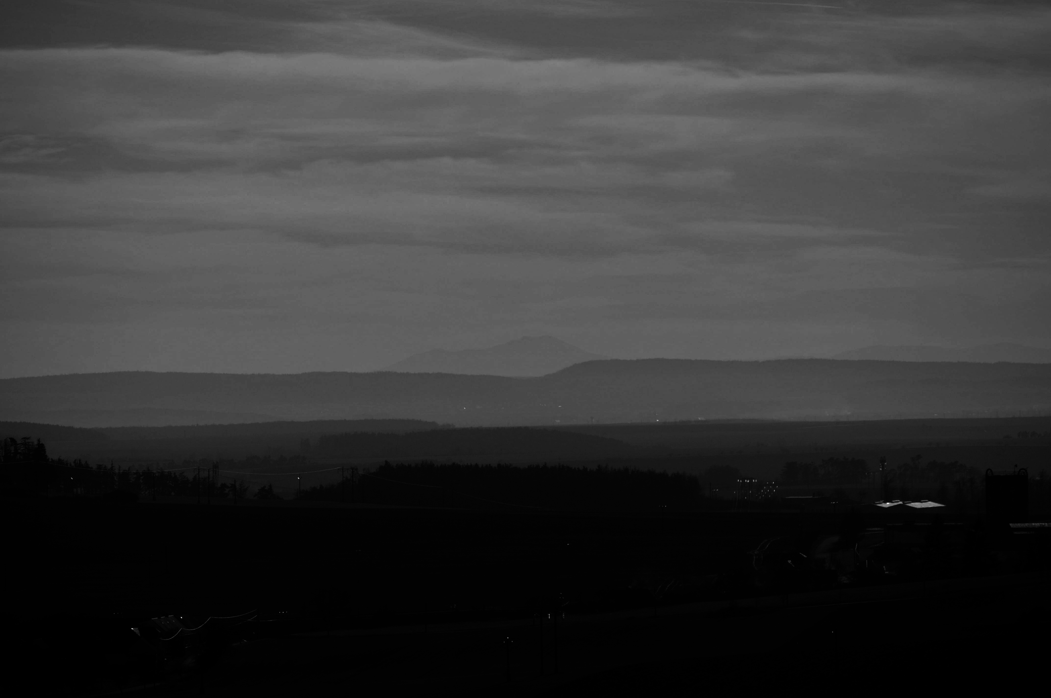 Schneeberg od Třebíče